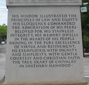 Script on George Davis Monument